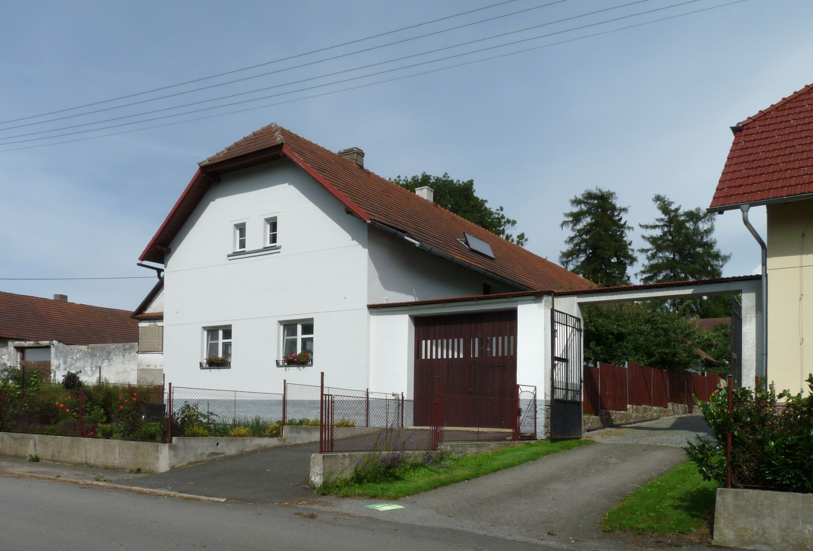 House No 37 in the municipality of Vodice, Tábor District, South Bohemian Region, Czech Republic.